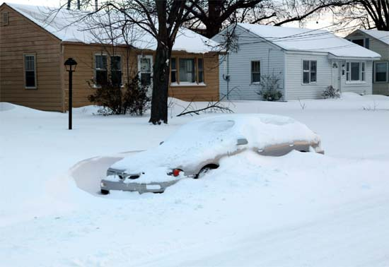 Car buried in a snowdrift in Paducah, KY.